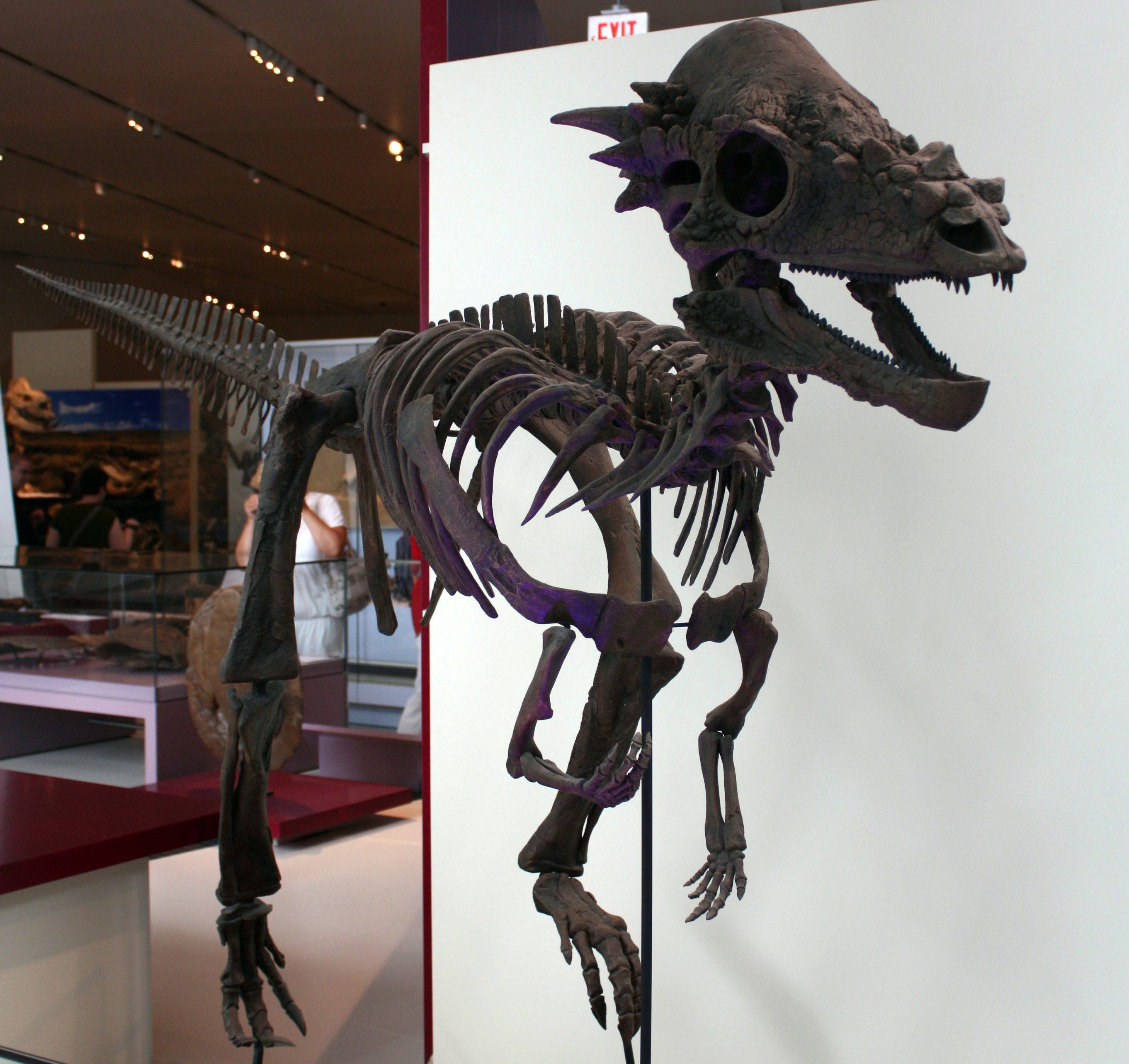 Pachycephalosaurus wyomingensis "Sandy" specimen, Royal Ontario Museum